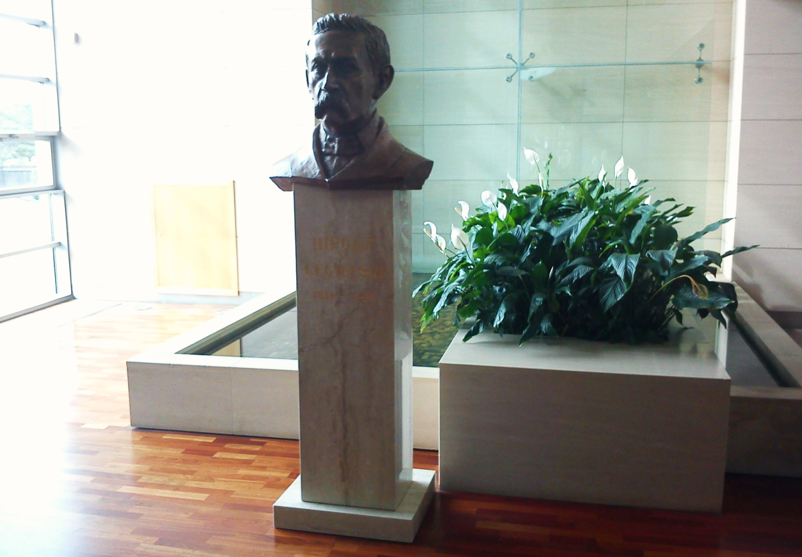 Monument of Hipolit Cegielski, Poznan, Delta Building.